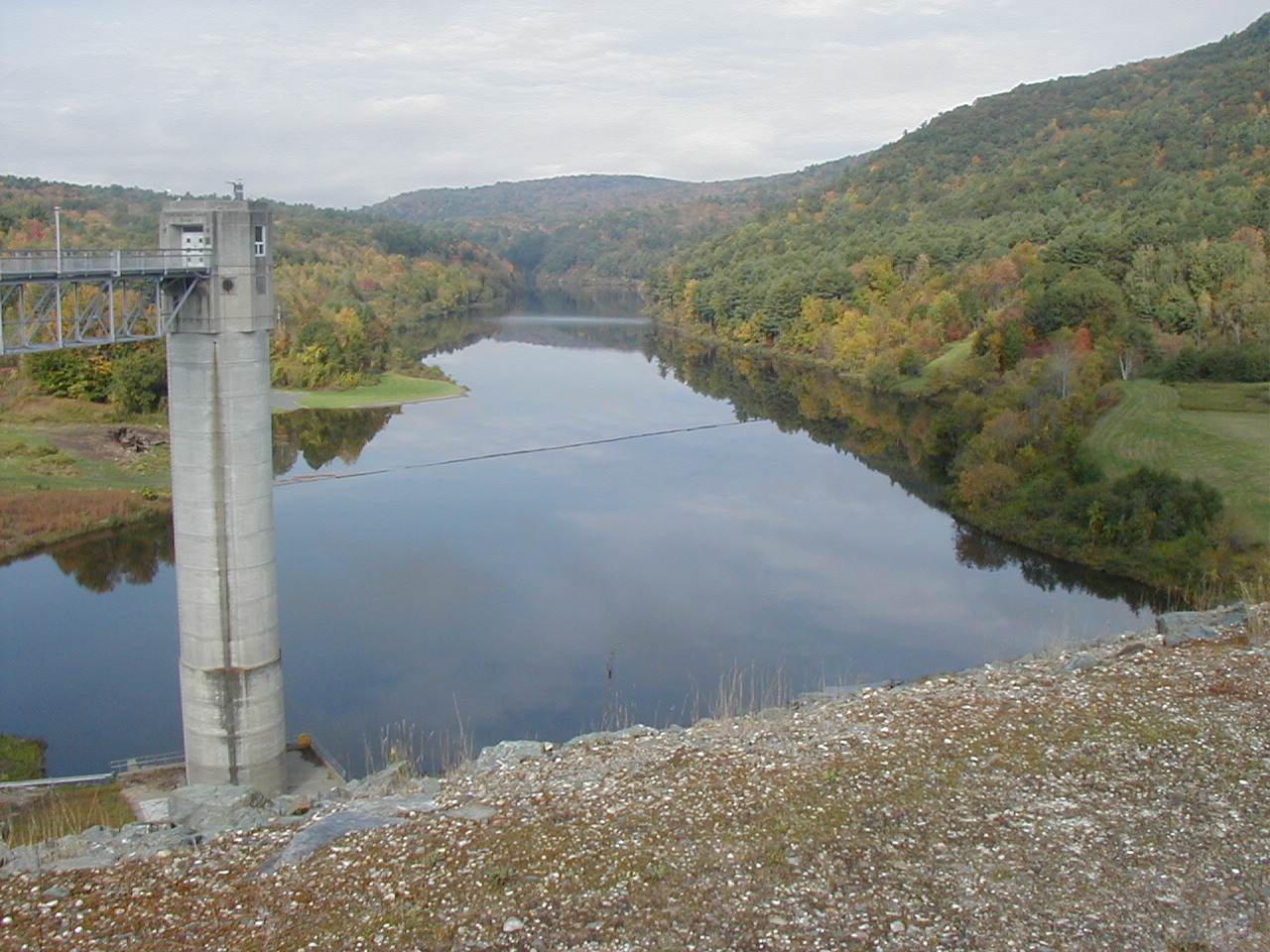 North Hartland Lake behind the Corps of Engineers dam, N. Hartland, Vermont.